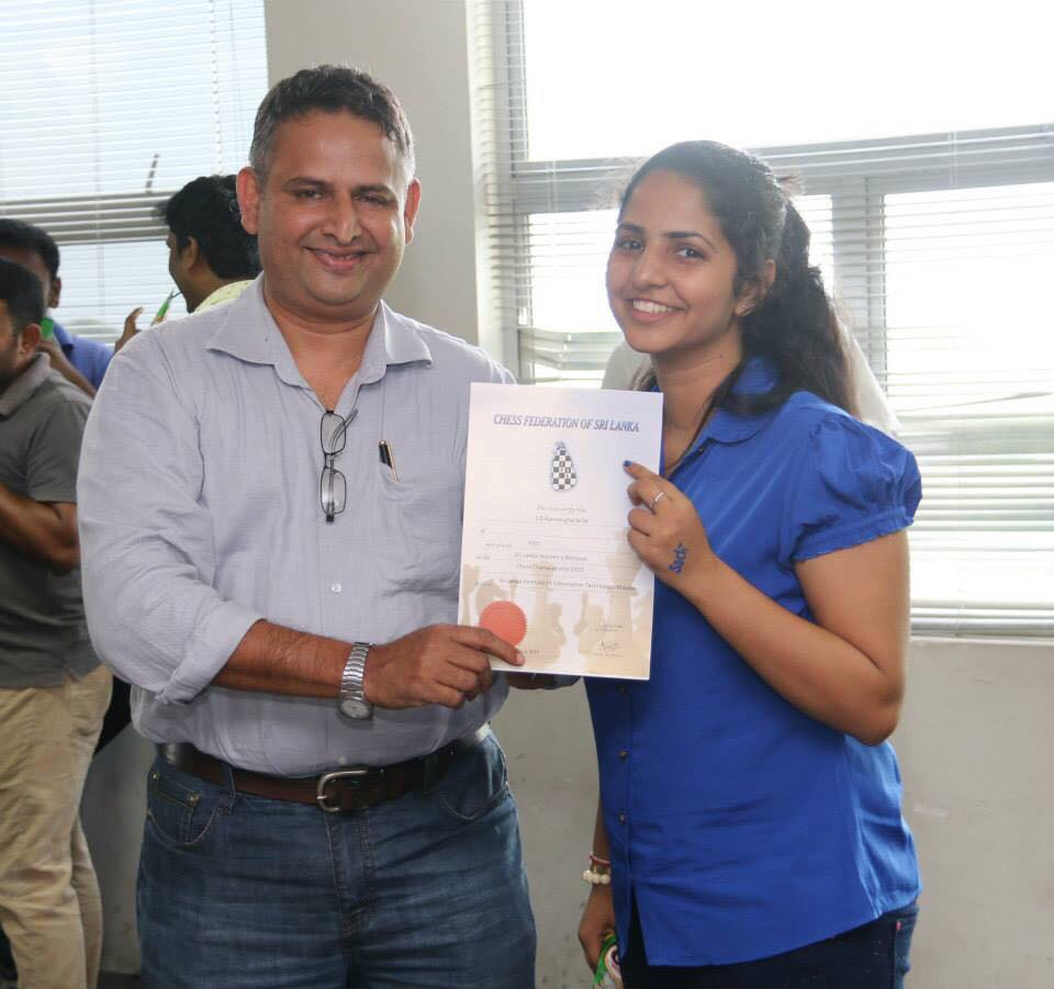 Sachini Ranasinghe with her coach Ransith Fernando